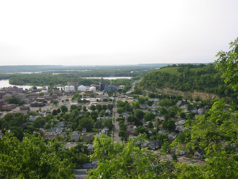 Picture of downtown Red Wing, Minnesota taken from Memorial Park. The Highway 63 bridge across the Mississippi River is in the middle, and Barn Bluff is to the right of the bridge.